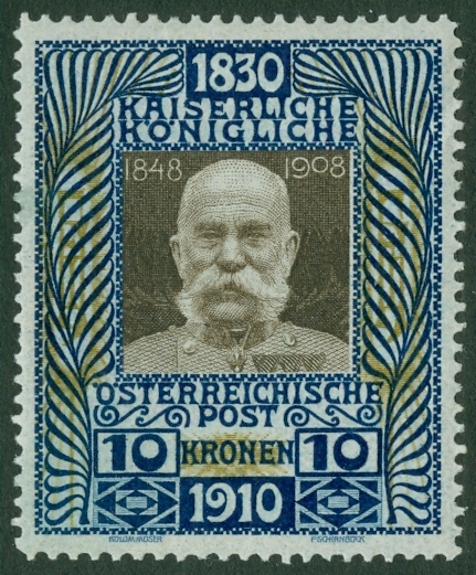 10 kroner stamp showing Emperor Franz Josef, issued in 1910 by Austria to mark the 80th birthday of the emperor.